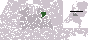 Location of Amersfoort